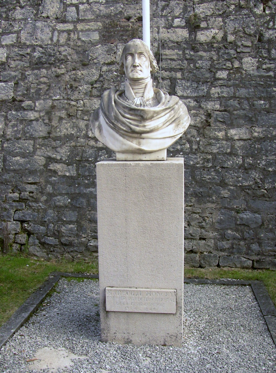 Moncey statue, located in Besançon (Doubs, France).